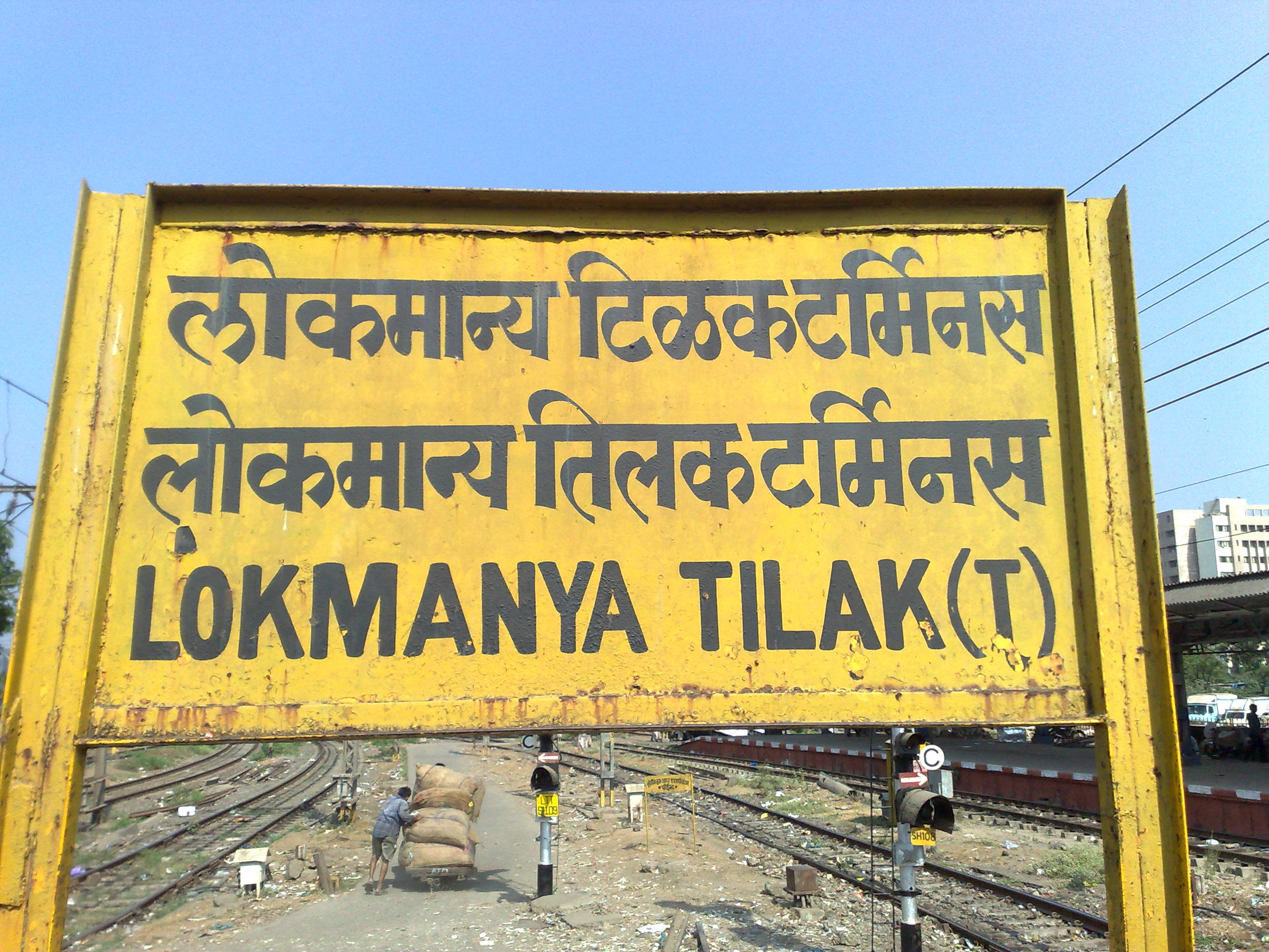 Lokmanya Tilak Terminus